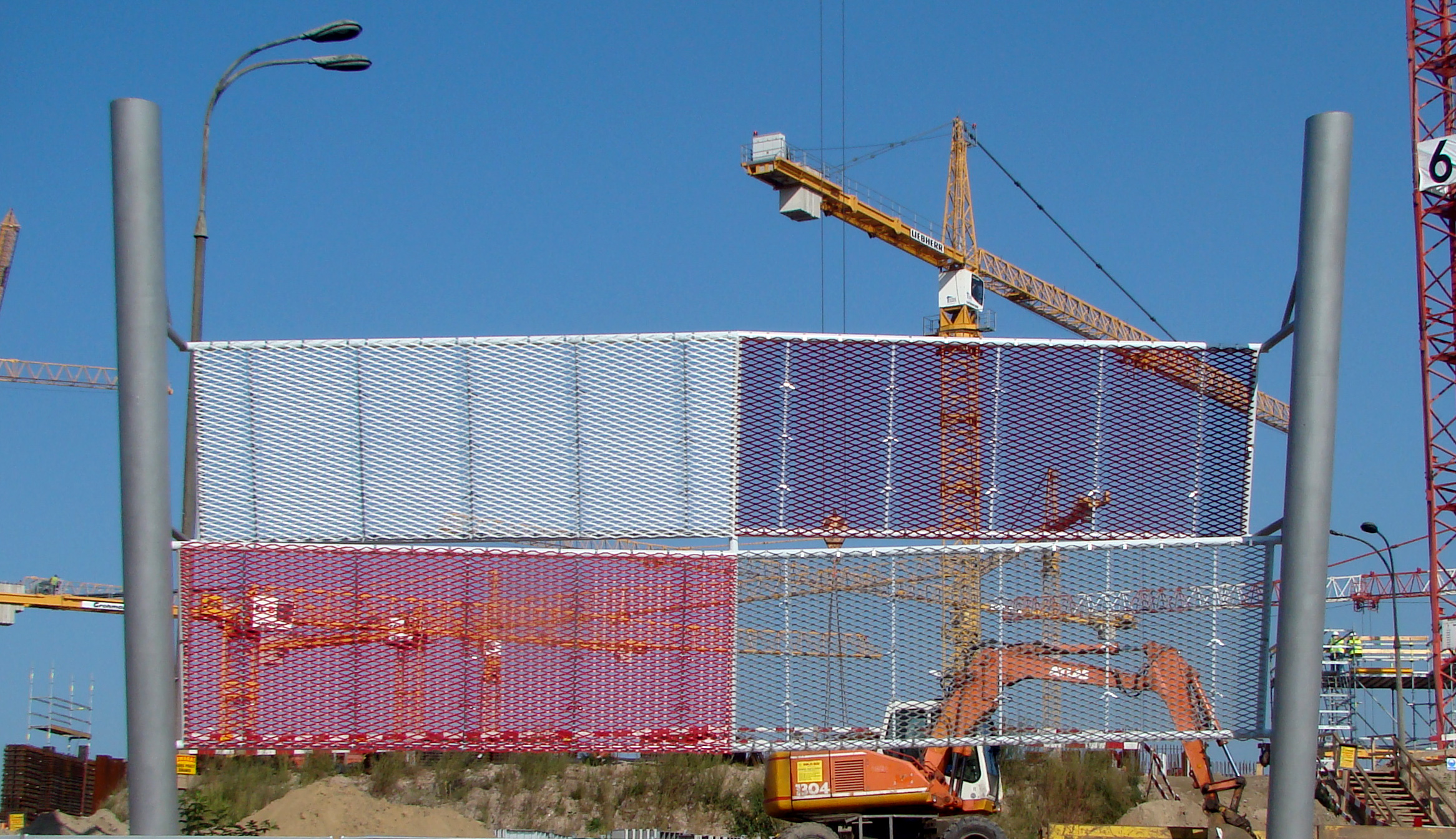 National_Stadium_wire-netting for façades